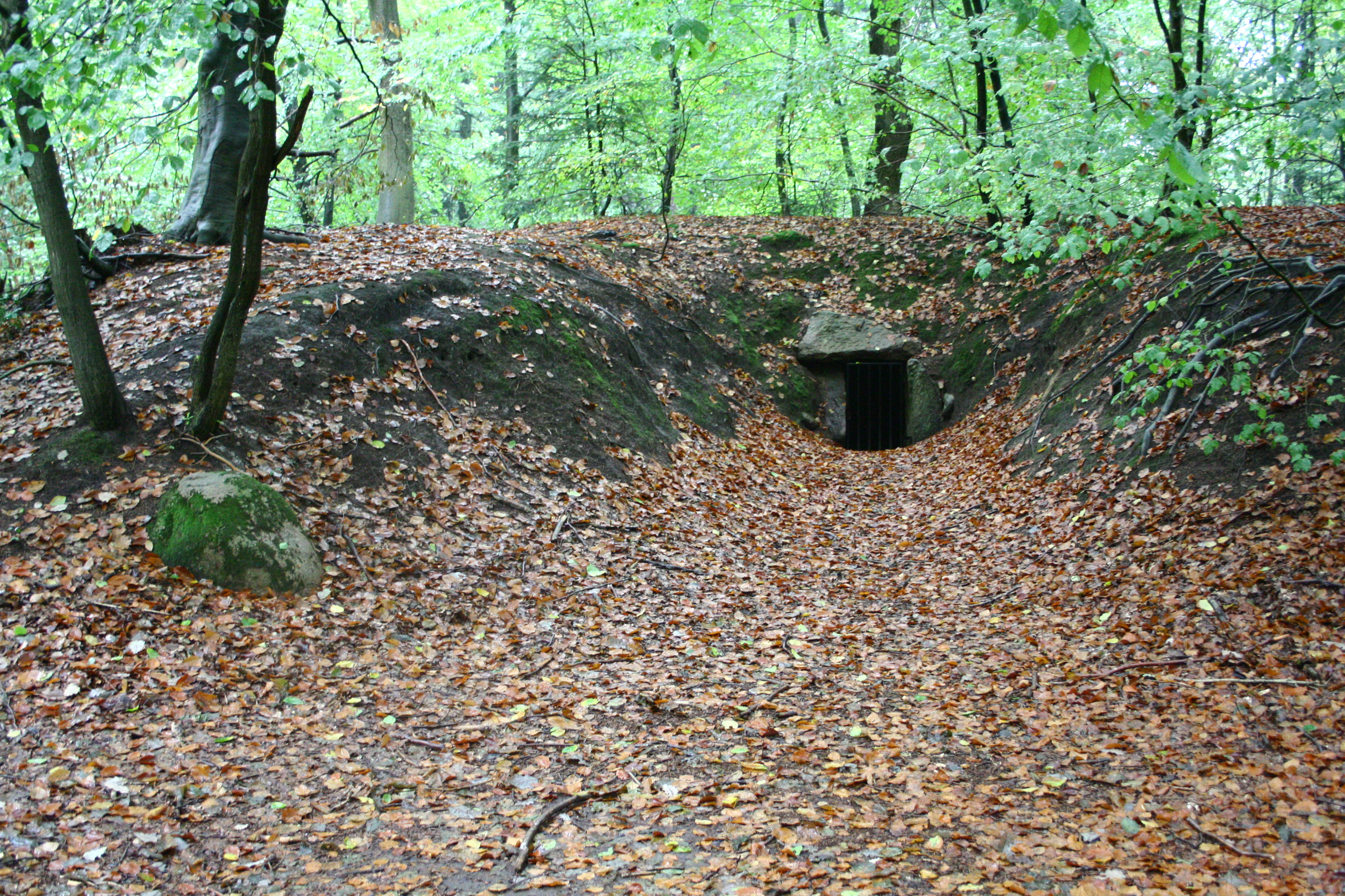 Megalithic tomb Flögeln 2